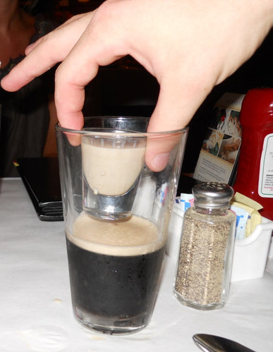 An Irish Car Bomb (A pint of Guinness with a shot of Irish cream)